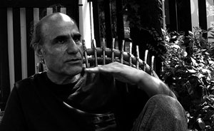 Amir Naderi, Iranian filmmaker, 65th Venice Film Festival